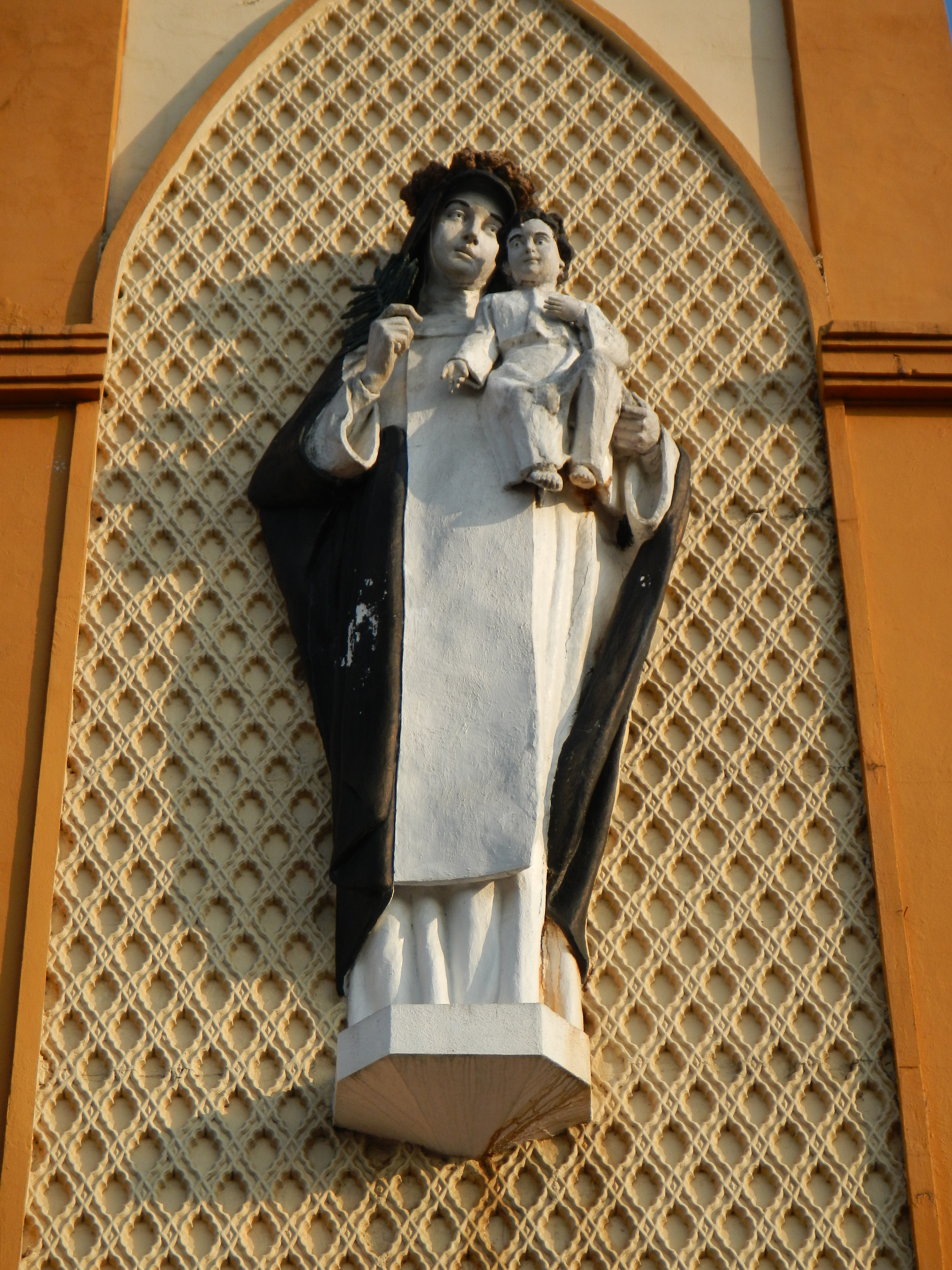 1804 Saint Rose of Lima Parish Church of Paniqui[1] [2] Vicariate of St. Rose of Lima Vicar Forane: Msgr. Alberto Bruno Saint Rose of Lima Parish (F-1804) Santa Rosa Street Paniqui 2307 Tarlac, Philippines Titular: St. Rose of Lima, August 23 Parish Priest: Msgr. Alberto Bruno Parochial Vicars: Father Ryean Tamayo Father Charles Corpuz[3]Roman Catholic Diocese of Tarlac [4][5]Most Rev. Florentino F. Cinense, D.D., PhD, STL Paniqui, Tarlac[6] is a first class municipality in the province of Tarlac, Philippines.[7][8][9][10]Rose of Lima, T.O.S.D., (April 20, 1586 – August 24, 1617) was the first person born in the Americas to be canonized by the Catholic Church. Coordinates: 16°0'25"N 120°11'45"E[11]